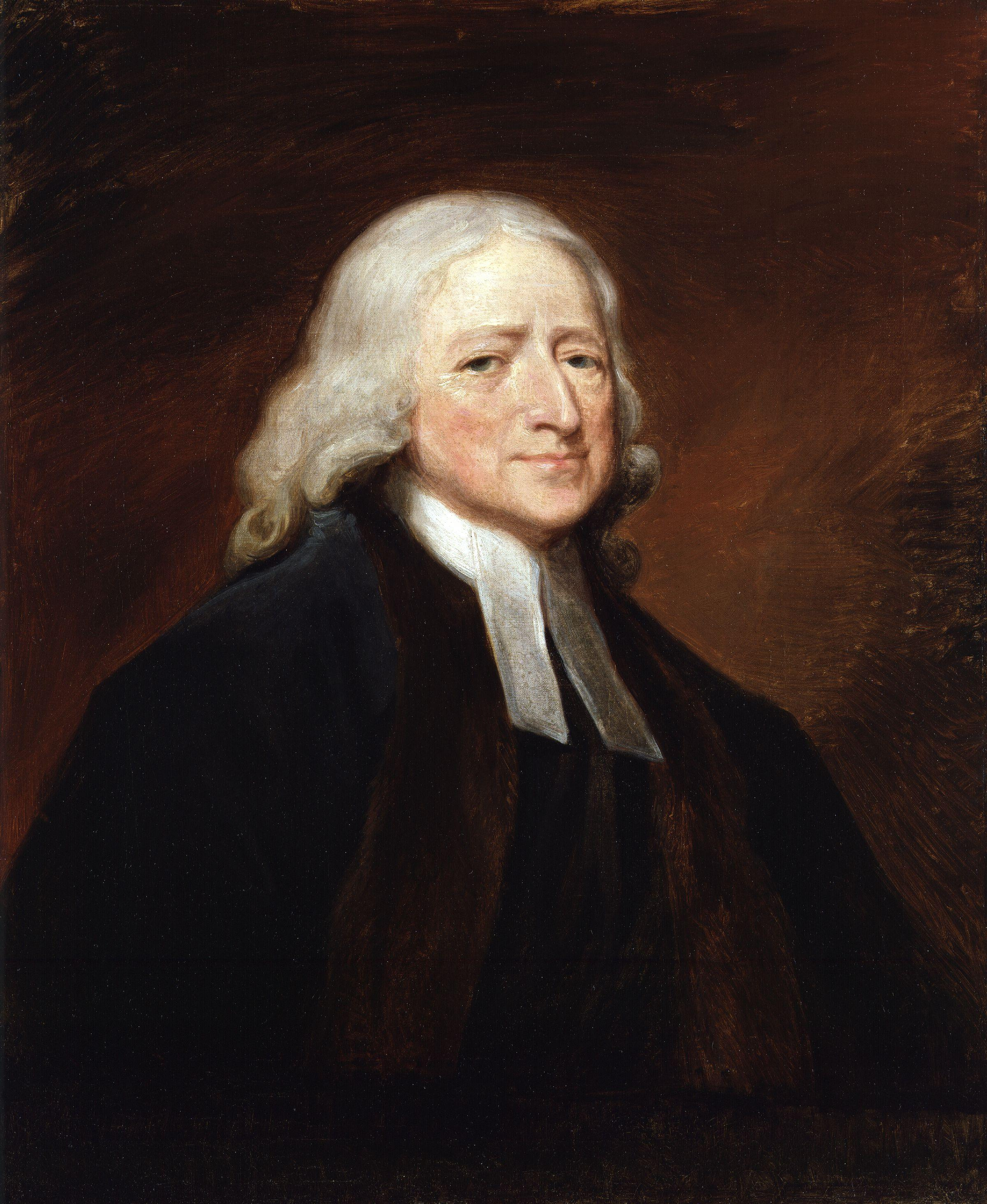 "John Wesley," by the English artist George Romney, oil on canvas. 29 1/2 in. x 24 3/4 in. Courtesy of the National Portrait Gallery, London. All images in this batch have been confirmed as author died before 1939 according to the official death date listed by the NPG.